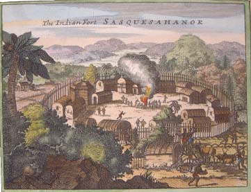 Susquehannock Fort, located in present-day York County, Pennsylvania, along the Susquehanna River. Illustration from from map by H. Moll, 1720; Original plate from De Nieuwe en Onbekende Weereld; Beschryving van America by Jacob van Meurs 1671. (Landis, David H. (1864-1936). "The location of Susquehannock Fort." Journal of the Lancaster County Historical Society; v. 14, no. 3. Lancaster, PA: Lancaster County Historical Society, 1910.